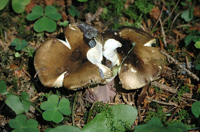 Russula olivacea from Commanster, Belgium. The determination of the species shown in this picture has been verified.